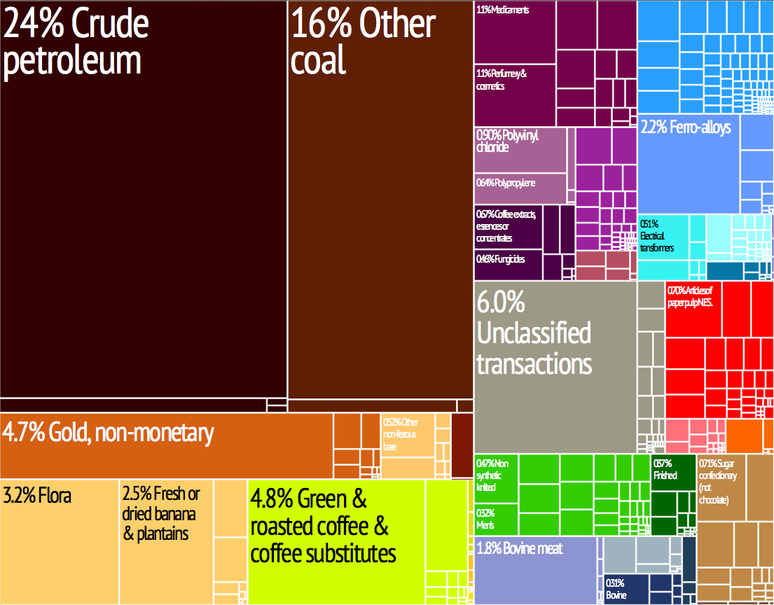 Export Trading Treemap. From MIT/Harvard Atlas of Economic Complexity